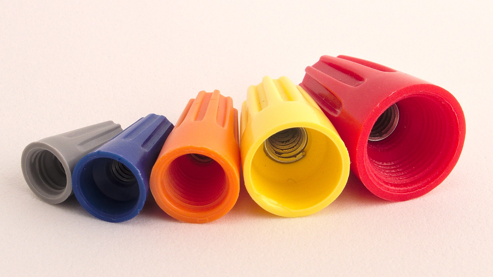 An array of five different color-coded sizes of twist-on wire connectors, also commonly known by by the genericised trademark "Wire Nut".